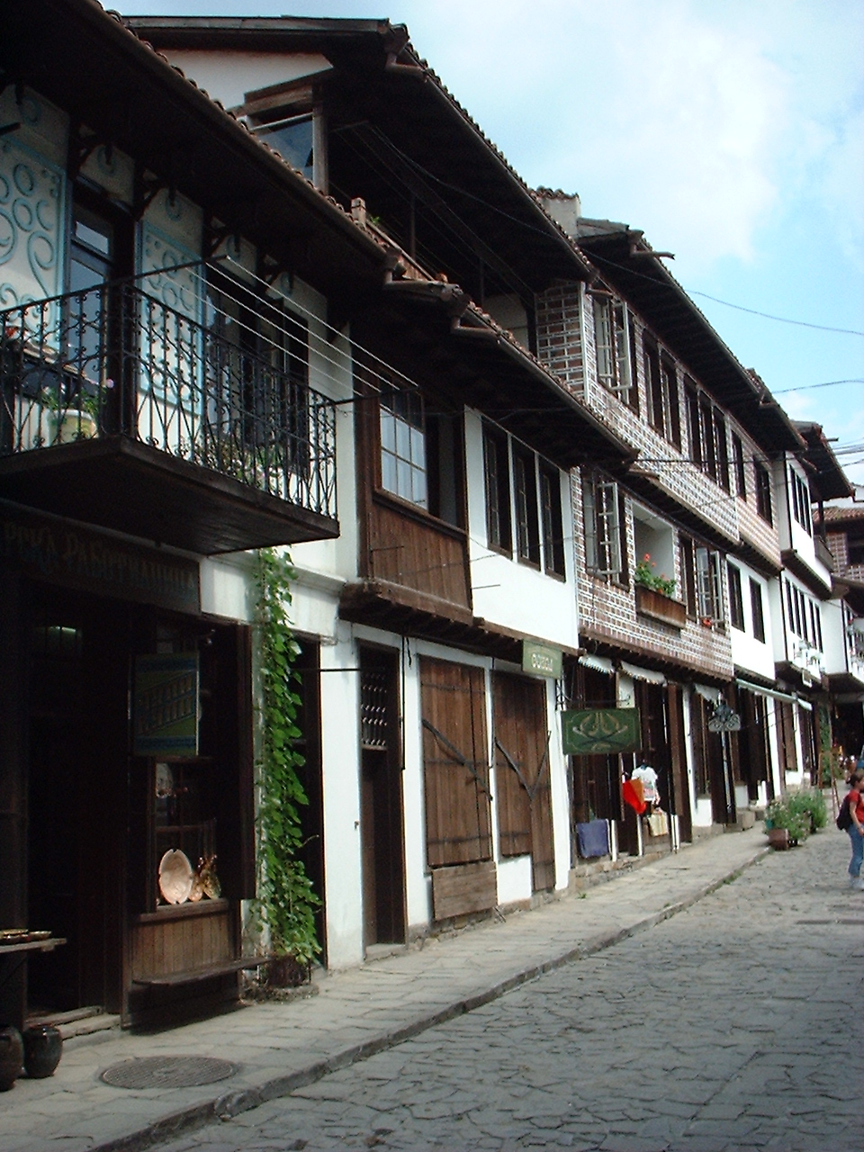 Samovodska Charshiya, Old Veliko Turnovo